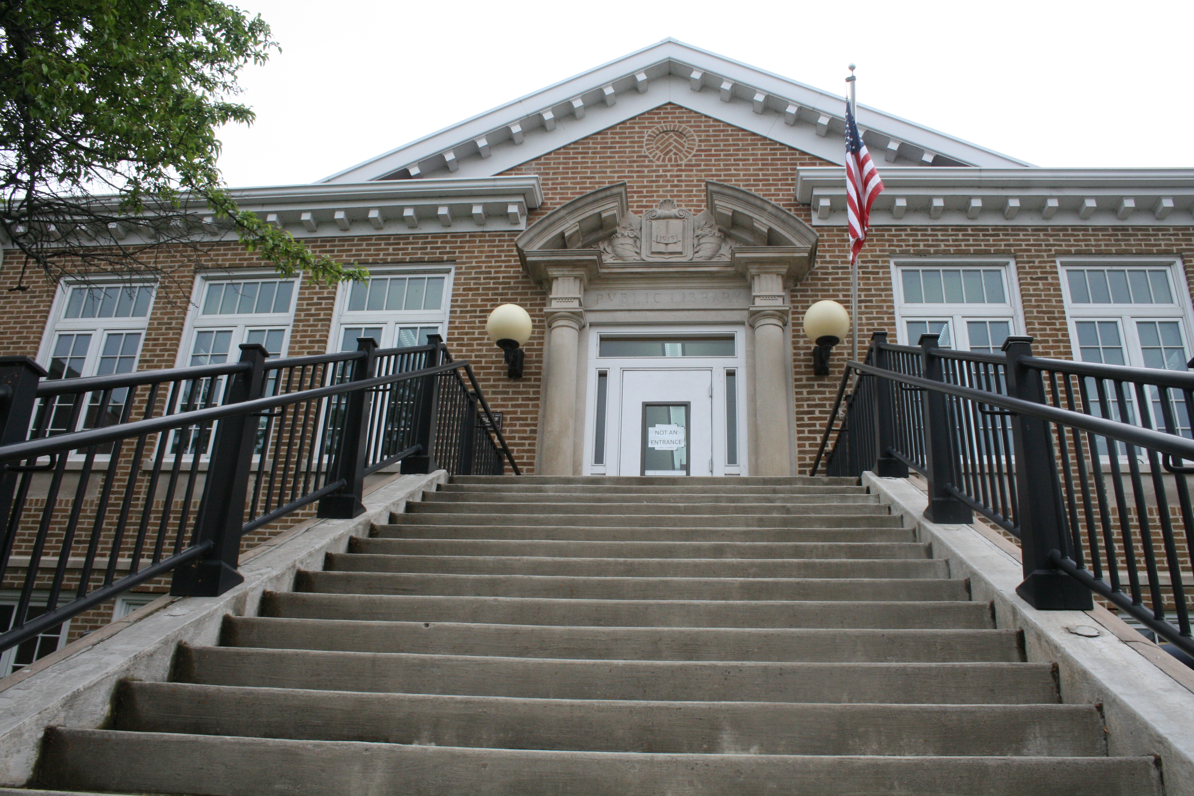 A Carnegie Library built in 1915